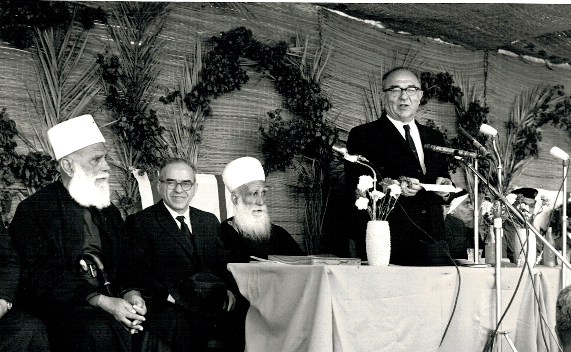 Levi Eschol